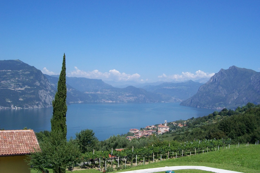 Nord Lago d'Iseo